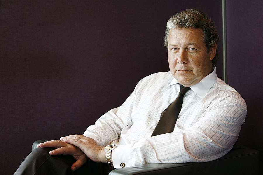 Photo taken by Florian343 of Mr. Rolf Theiler during private interview. Photo taken in Zurich, Switzerland